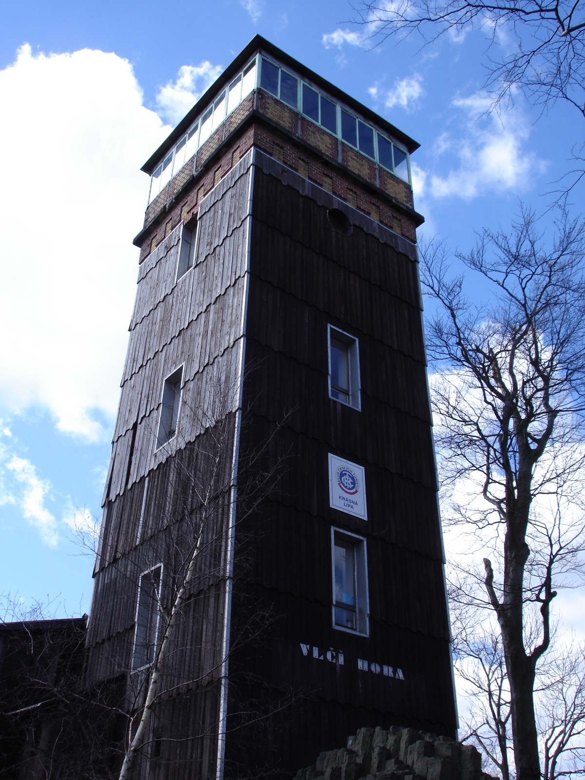 Outlook tower at Vlčí hora in Lužické hory (Lusatian mountains), Czech republic